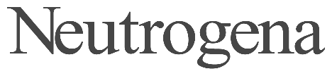 Neutrogena's logo from enwiki